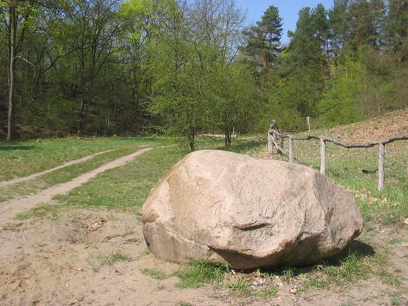 A glacial erratic (natural monument) in the "Murellenschlucht und Schanzenwald" nature reserve in Berlin. – The Murellenberge, the Murellenschlucht and the Schanzenwald (german for: Murellenhill, Murellenravine, Sconceforest) are a hill-landscape from the last gacial period in Berlin-Ruhleben in the district Charlottenburg-Wilmersdorf. It is part of the Teltow-Plateau at its northside in Berlin. In the hills there is the memorial Denkzeichen zur Erinnerung an die Ermordeten der NS-Militärjustiz am Murellenberg (german for: Thought-Signs to commemorate the victims of Nazi military justice at Murellenberg), created by the argentine, in Berlin living, artist Patricia Pisani in 2002.